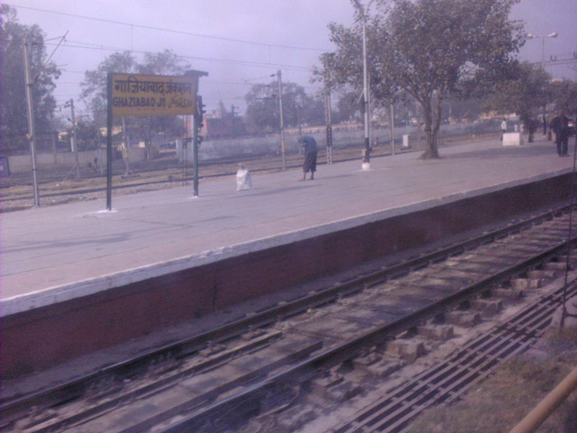 Ghaziabad rail station picture added